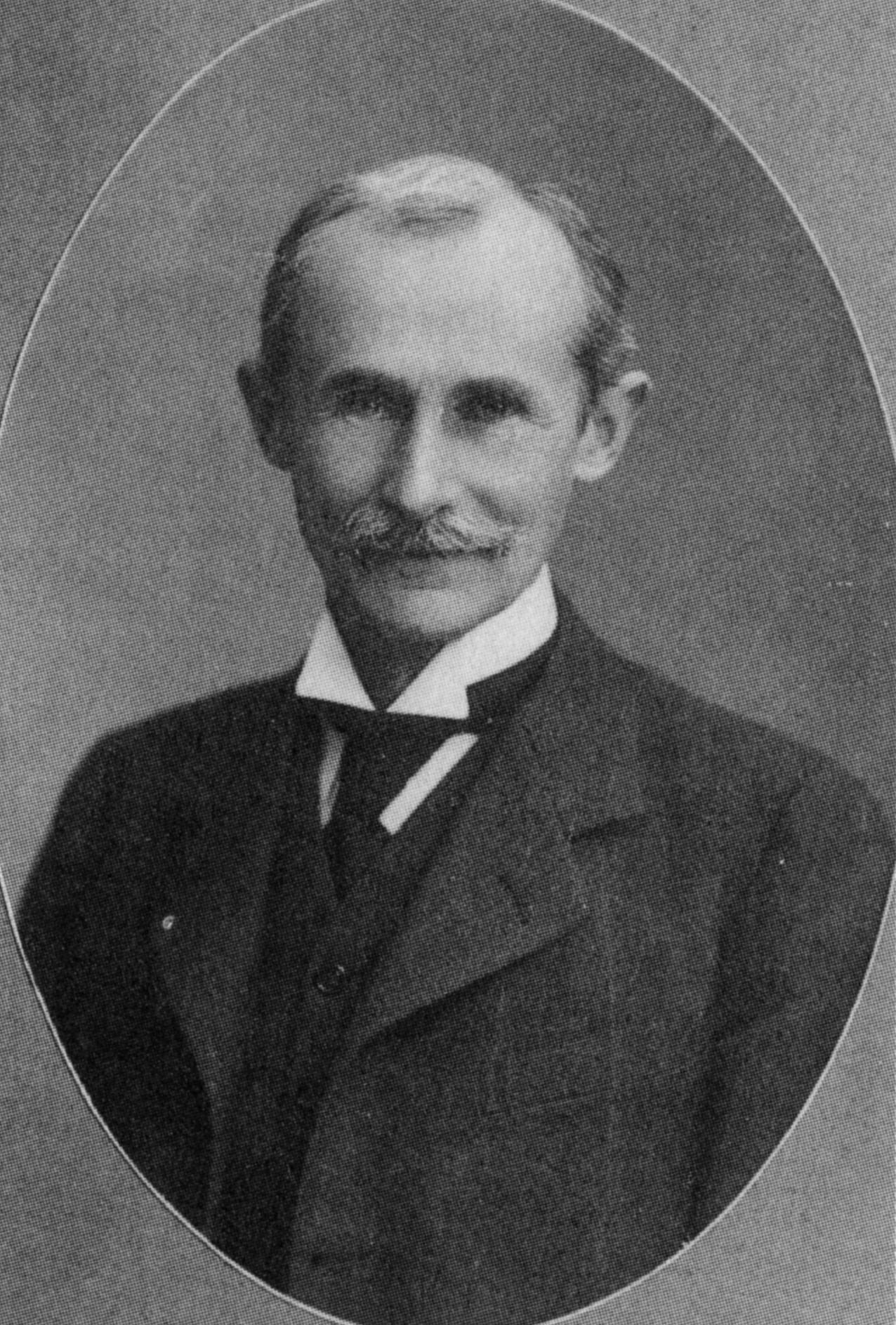 Aage Weztenholz (1859–1935)